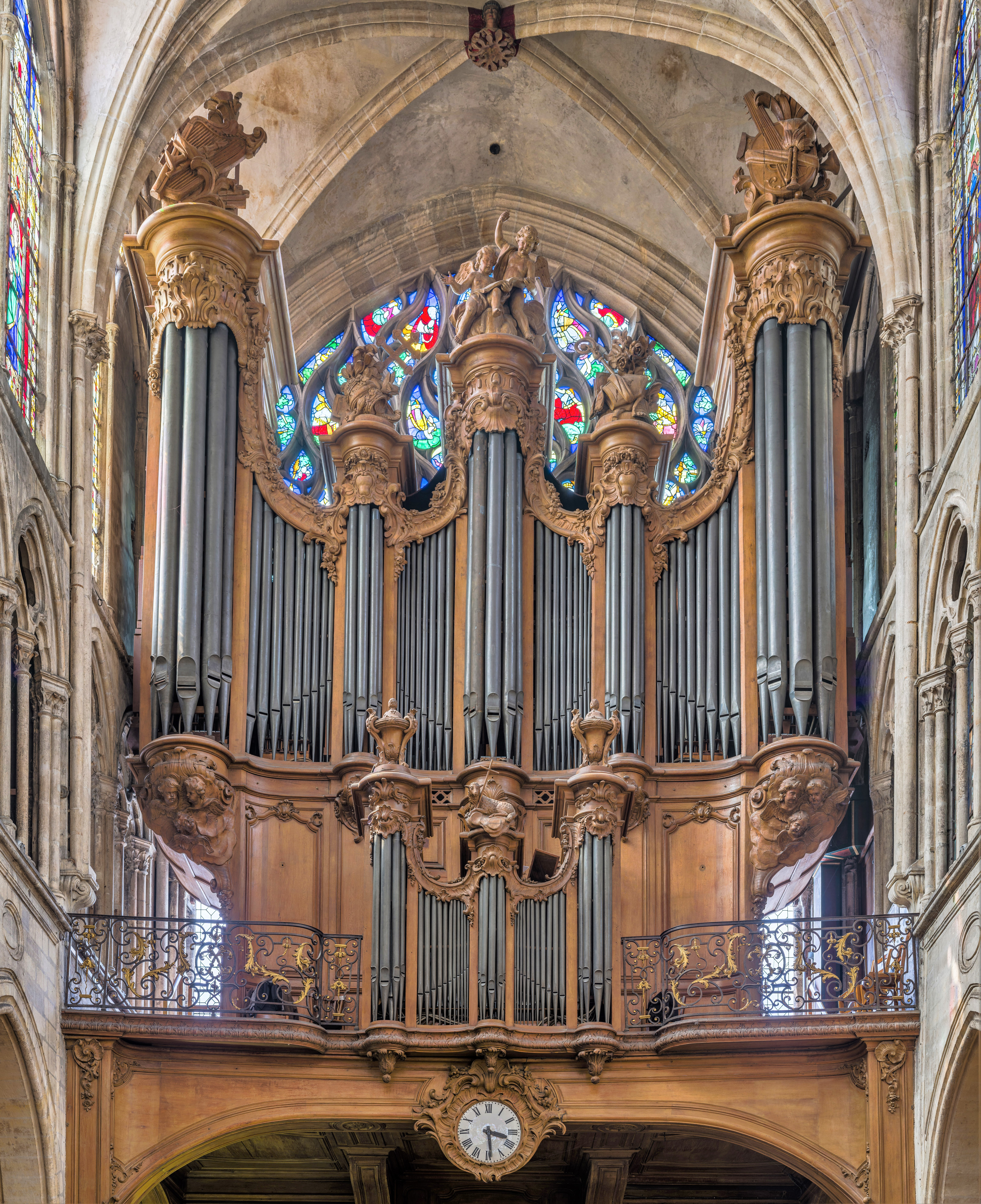 The organ of Saint-Séverin in Paris, France.